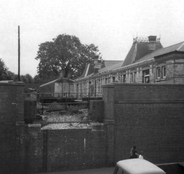 Stourbridge Town Station. View from road, between rail and bus stations. Brick wall shows location where the line (freight only) once continued down to the river. Soon after this photo was taken (days), a crash took place here, where the train went through the buffers and the wall, and ended hung over the road. Fortunately no-one was hurt.